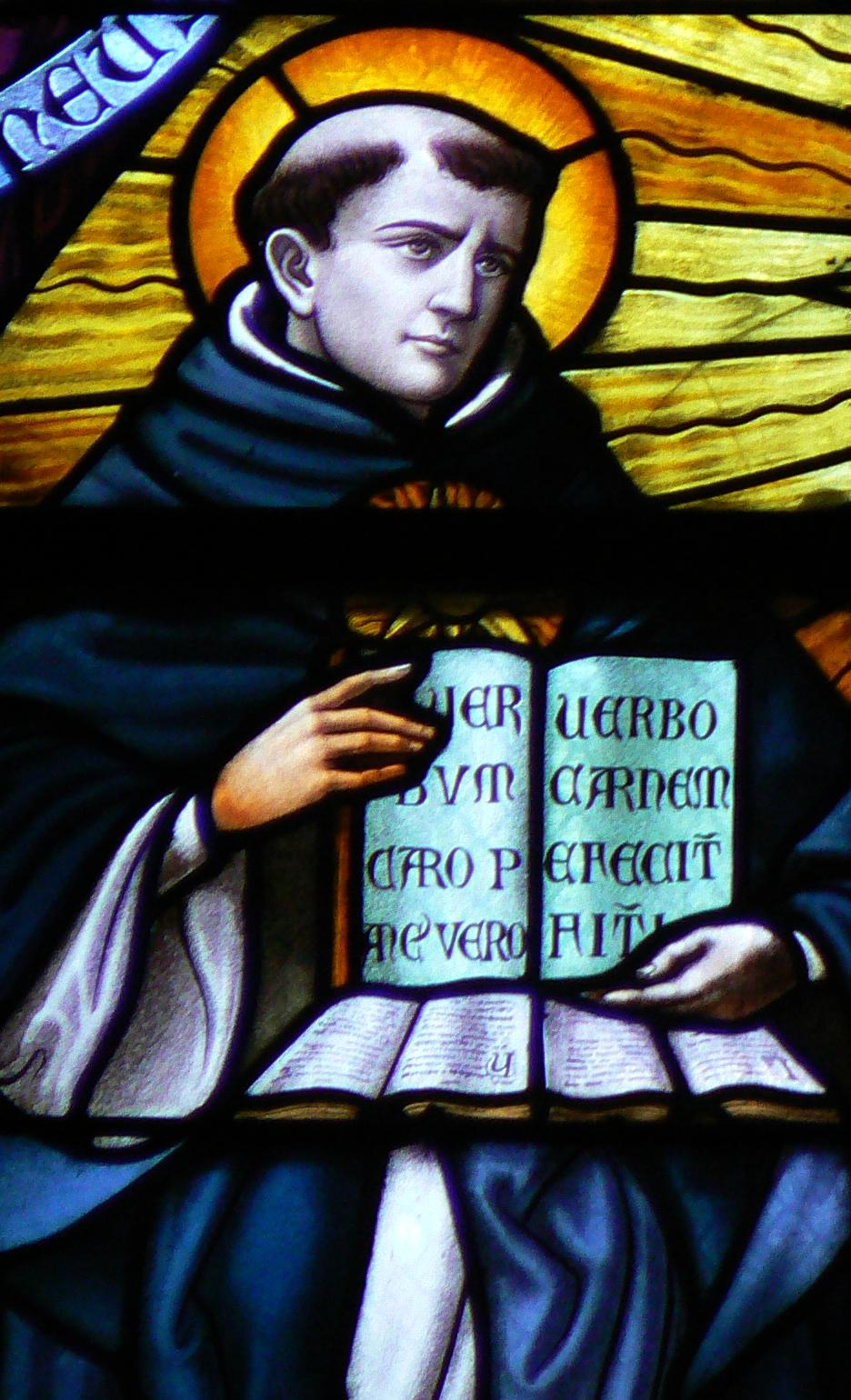 Saint Thomas Aquinas (1225-1274) stained glass window. Cathedral of Saint-Rombouts, Mechelen (Belgium). In the book an extract of St. Thomas's hymn Pange lingua ("Sing, My Tongue"): Verbum caro pane vero verbo carnem efecit fit(que ...) Word-made-Flesh, the bread of nature by His word to Flesh He turns, and He makes ...